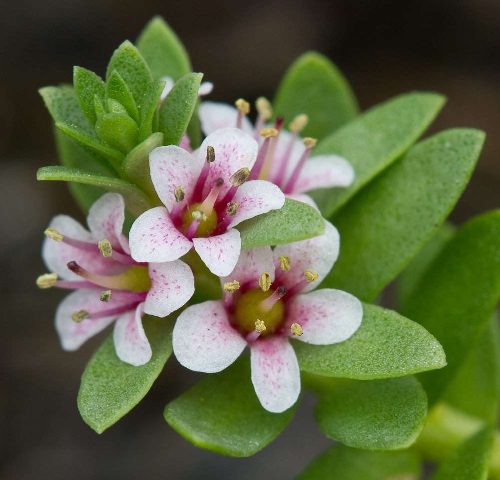 Close-up of flowering Sea milkwort, Glaux maritima – a salt-tolerantly plant.